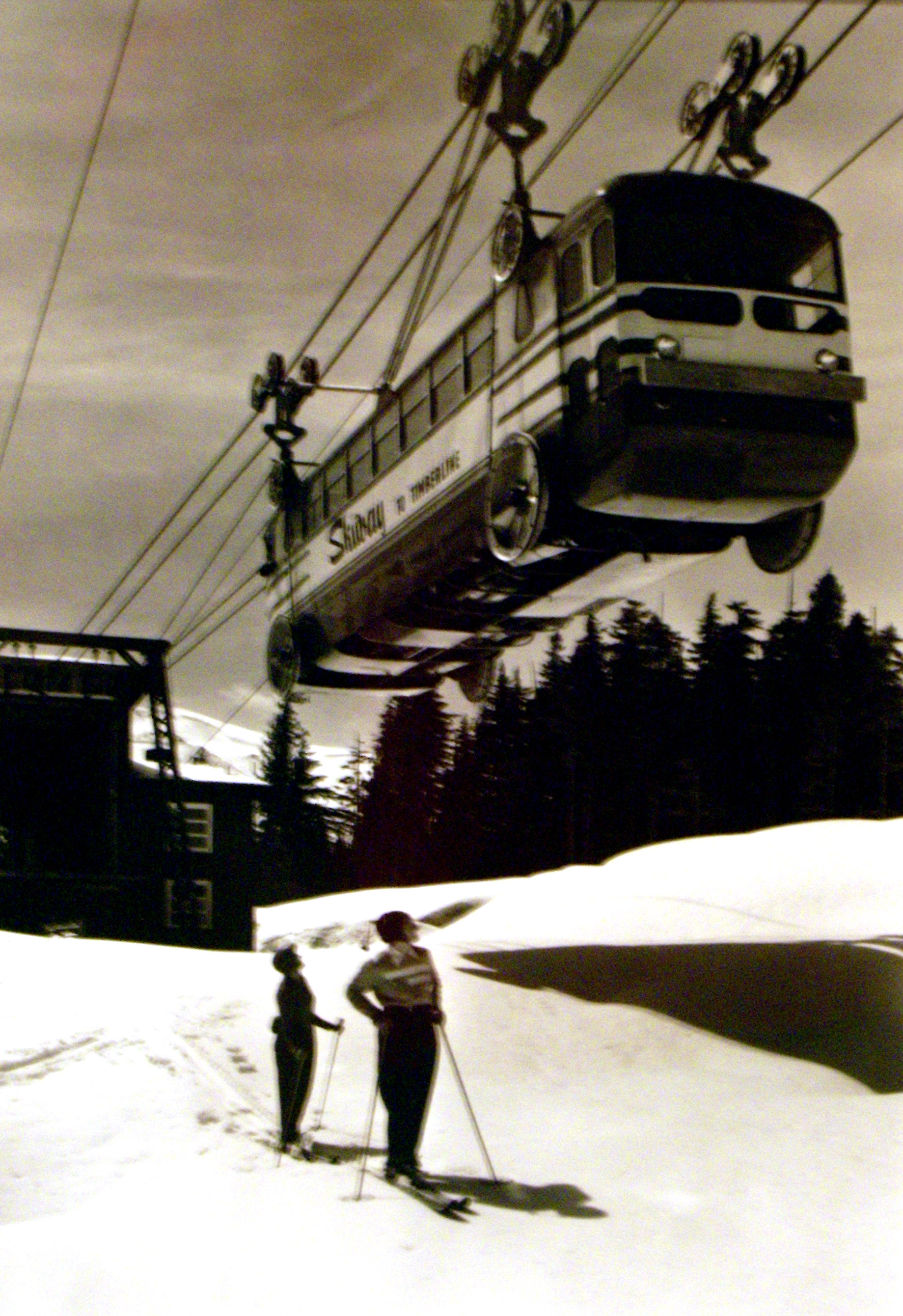 1950s Skiway lift at Timberline Lodge ski area made from a bus and suspended high above the ground. Due to financial difficulties, it ran for only a few years.